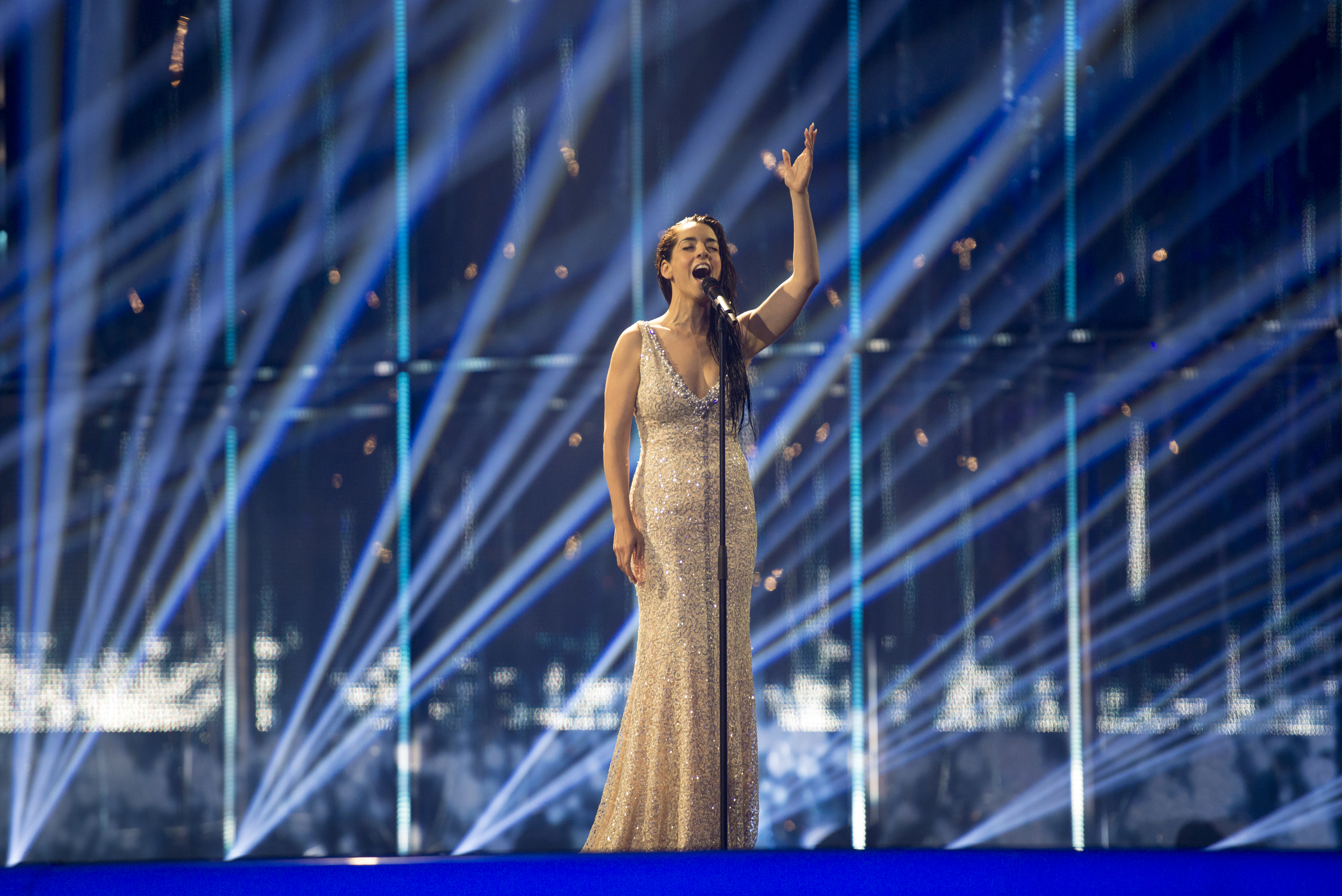 Ruth Lorenzo representing Spain with the song "Dancing in the Rain" during the first dress rehearsal of the final of the Eurovision Song Contest 2014 Copenhagen. (Help translate this text)